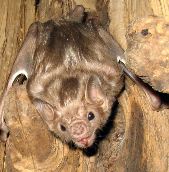 White-winged vampire bat (Diaemus youngi)